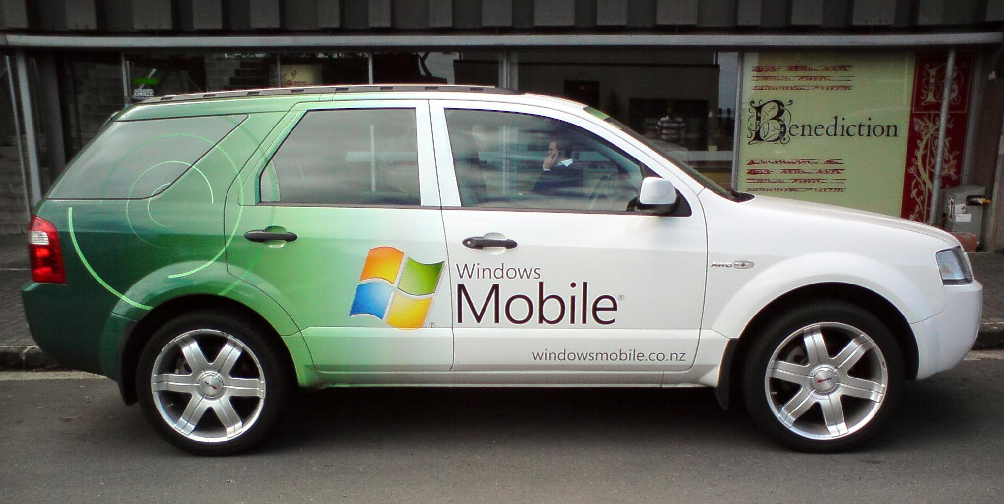 Windows mobile advertising car in Auckland, New Zealand. Flickr info: "I wonder how many times it just stops and you have to get out open and shut all the doors and restart the engine before you can drive another 100 metres."